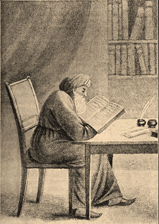 Illustration from Brockhaus and Efron Jewish Encyclopedia (1906—1913)